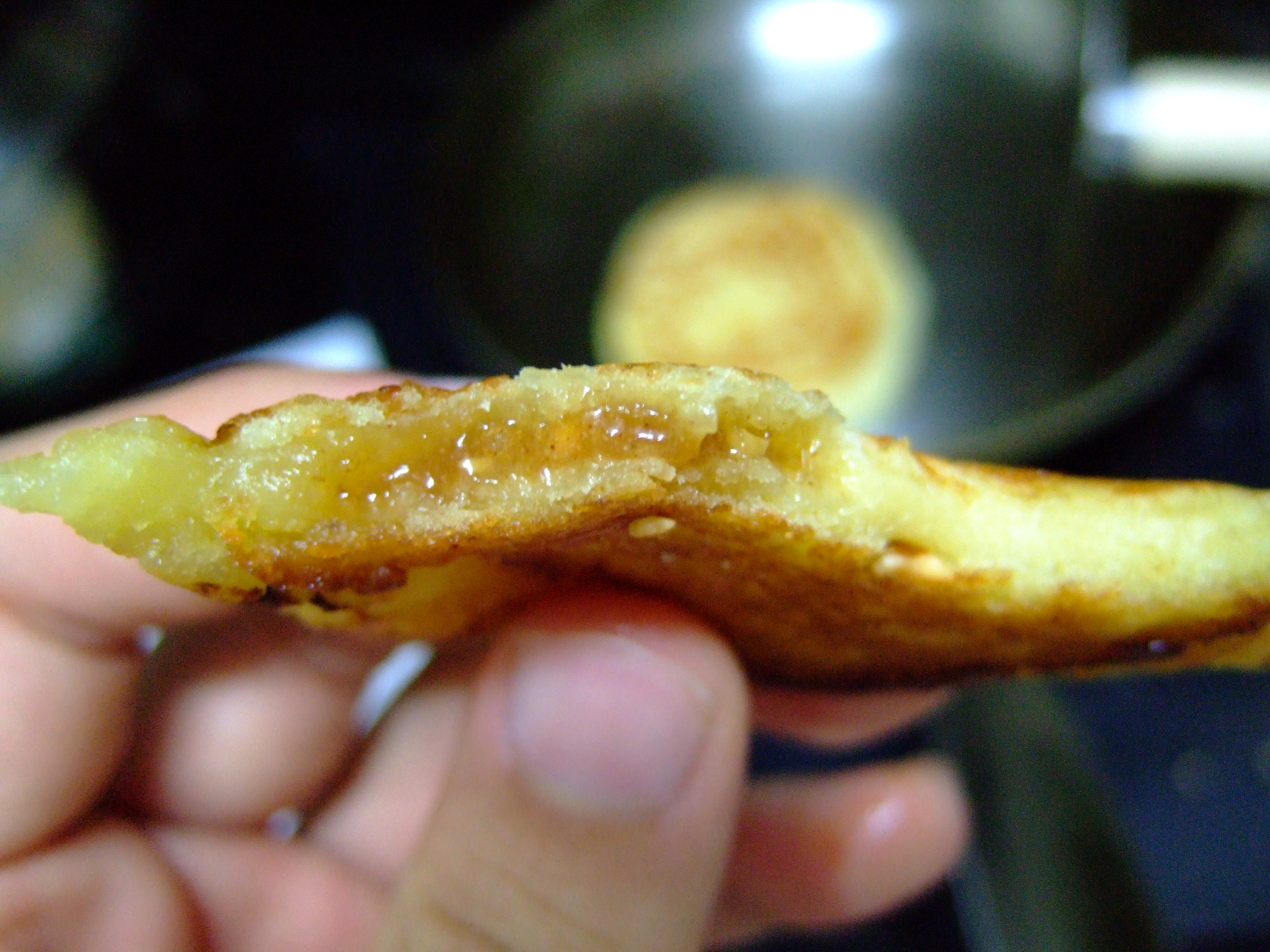 South Korean hotteok (a sweet filled pancake), showing filling.